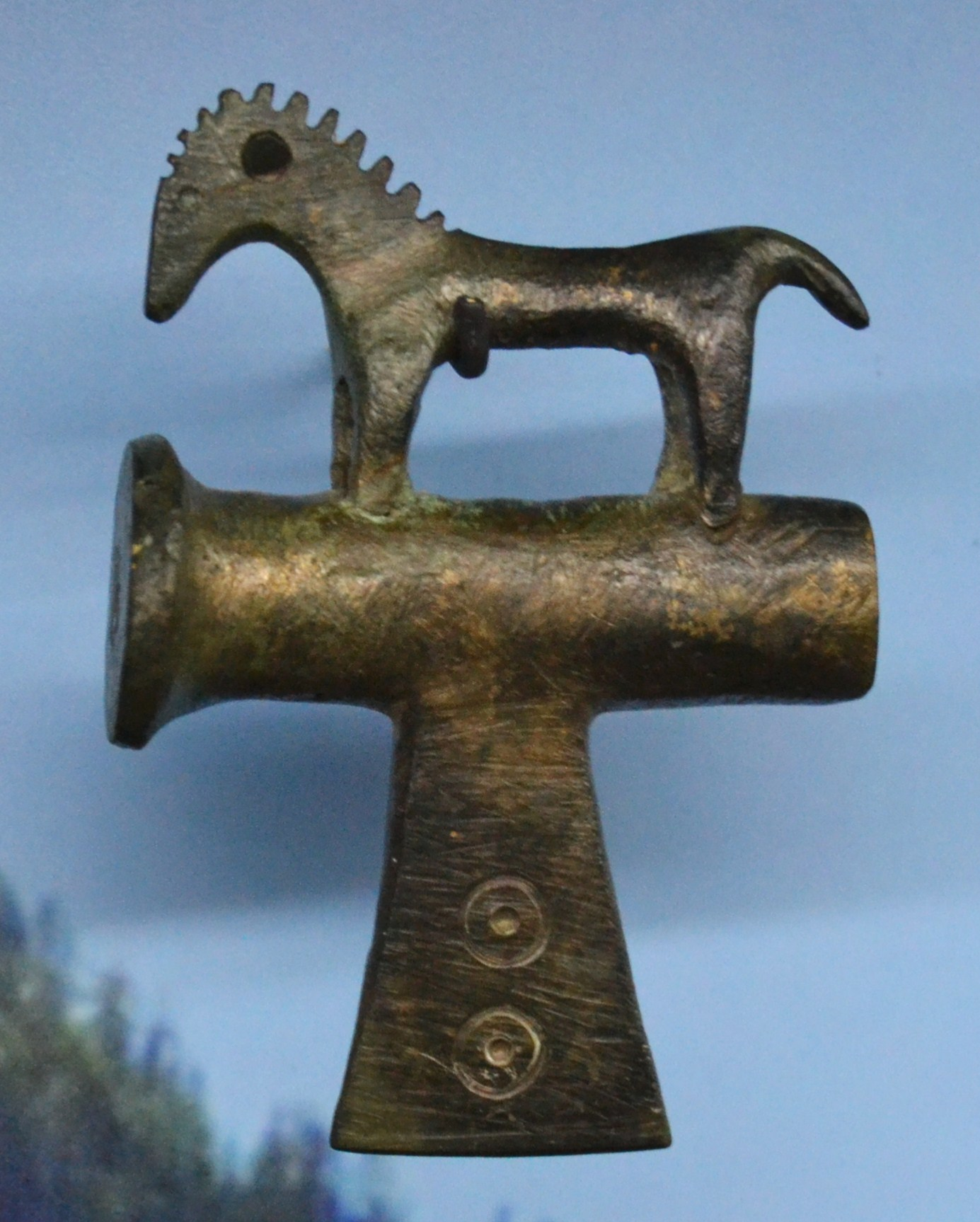 Bronze ceremonial axe, 800 . 750 BC, Hallstatt, Grave No. 504.